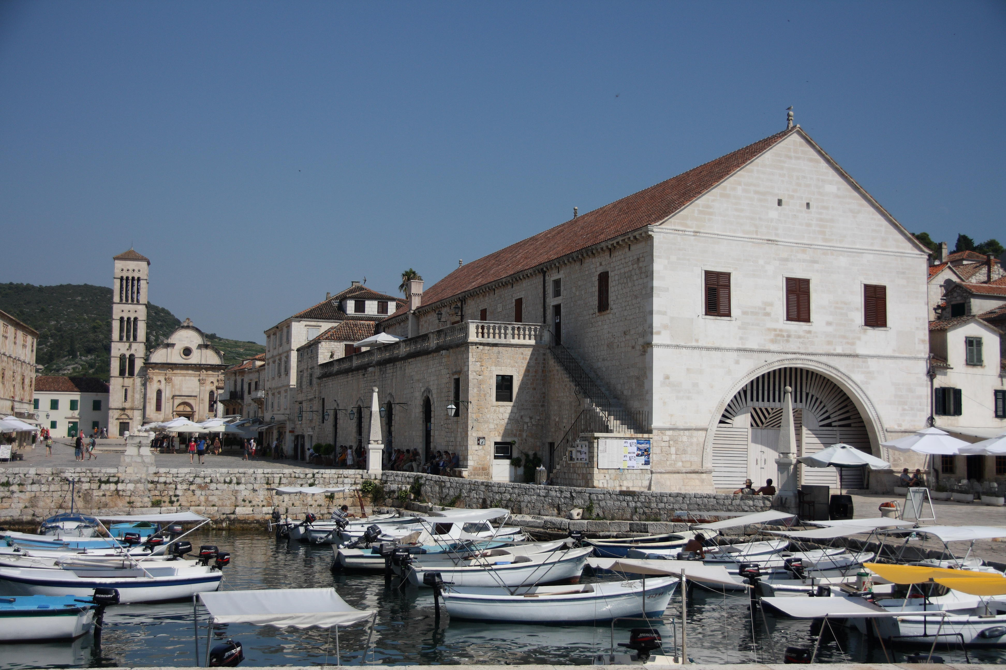 The Arsenal at Hvar. A former venetian warehouse and one of the oldest theatres in Europe.